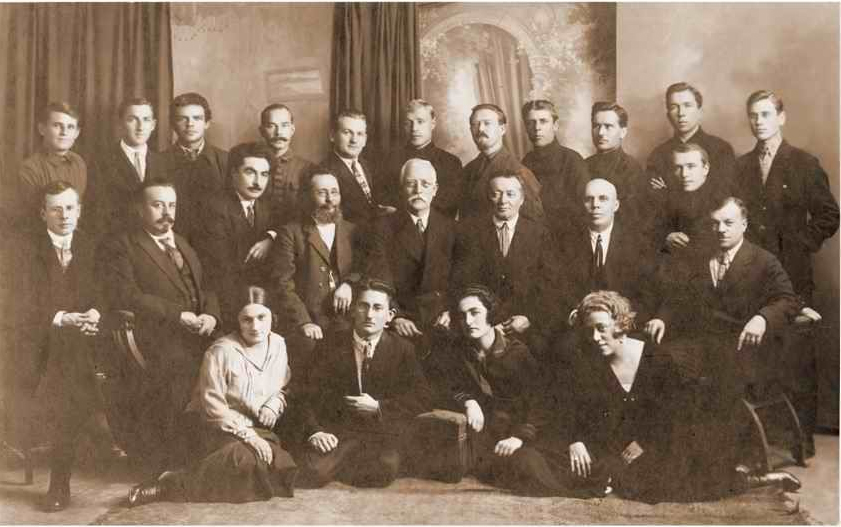 Tashkent, 20th years of the XX-th century. Congress of doctors. In the center - doctors, organizers of medical faculty of the Tashkent university. In the center professor Peter Fokich Borovsky